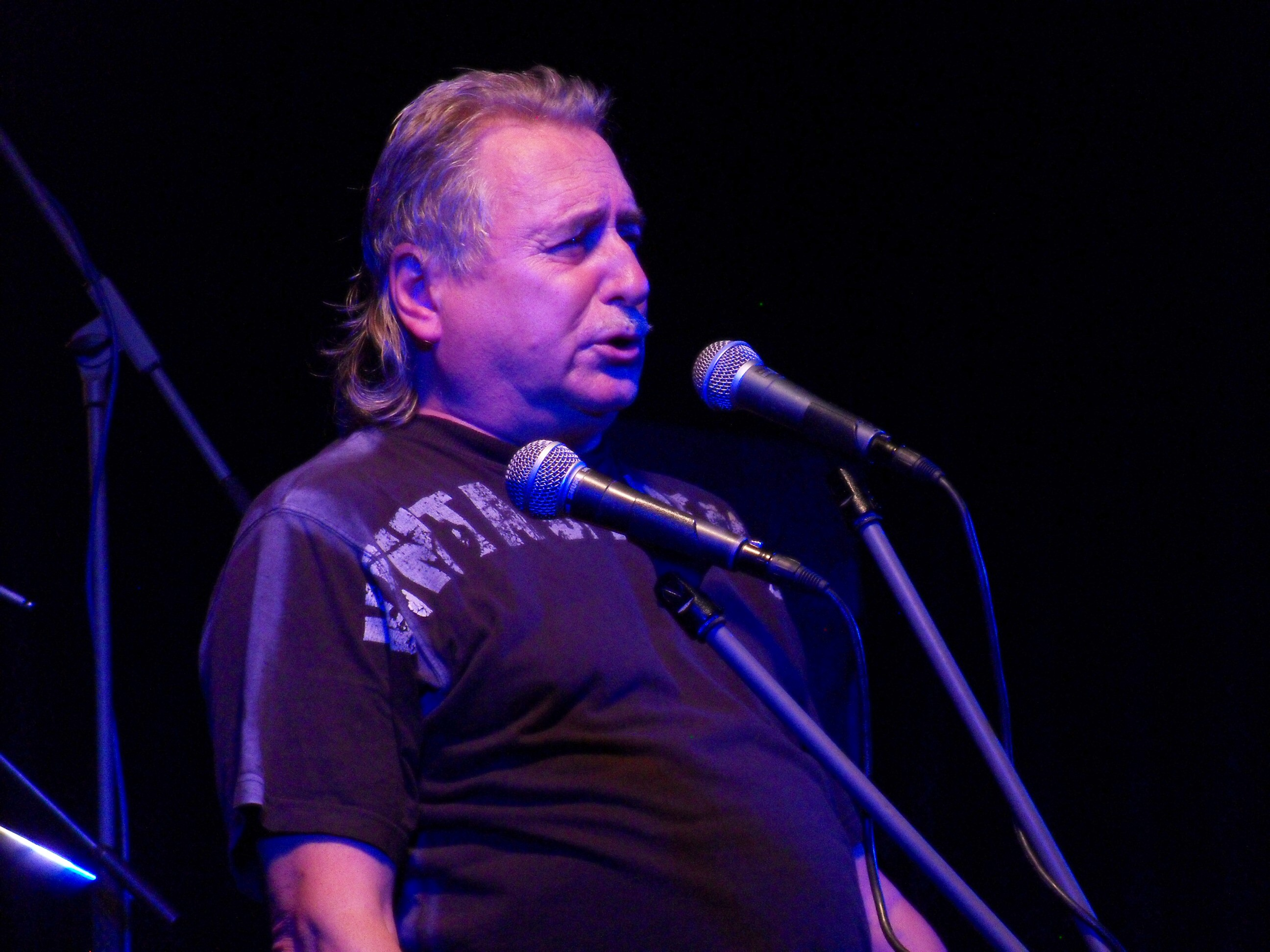 Oldřich Veselý, keyboardist and vocalist of czech rock band E-Band, Brno, Czech Republic